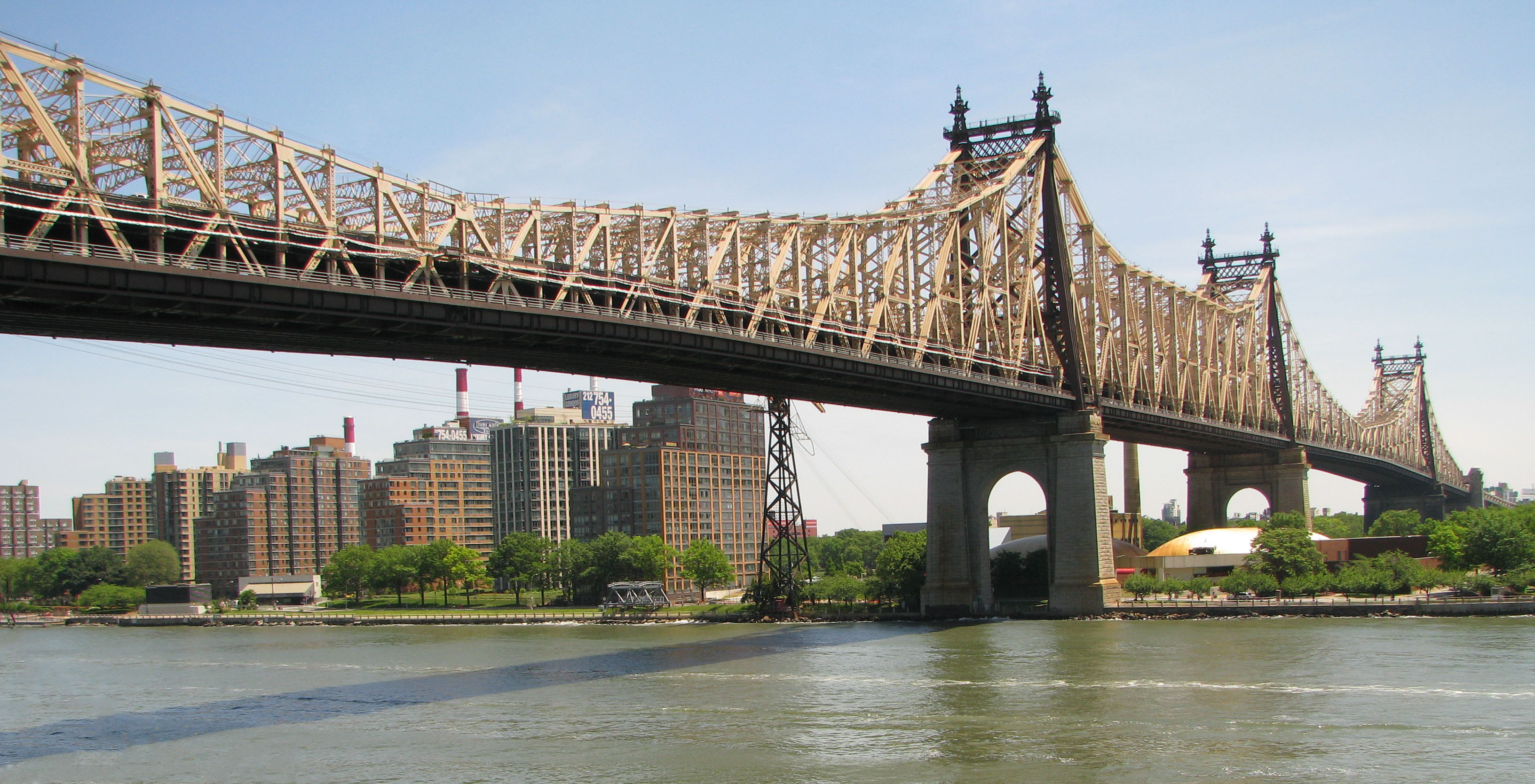 Ed Koch (Queensboro) Bridge, New York City